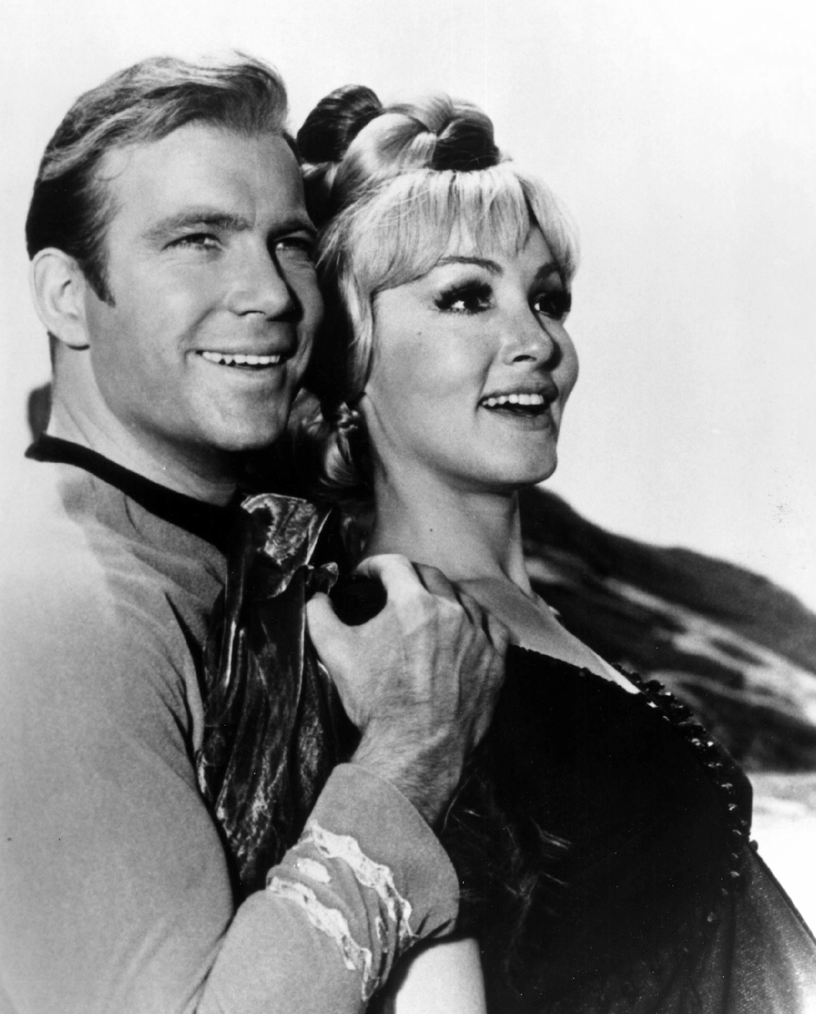 Photo of William Shatner and guest star Julie Newmar from the "Friday's Child" episode of Star Trek.